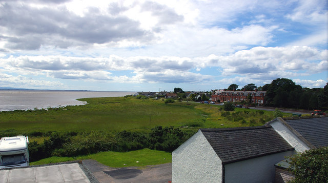 View of Powfoot View to South West Solway Firth, Powfoot and Cumbrian Fells. Siloth in Cumbria is at the tip of the headland on the far side of the Solway.